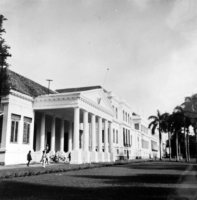 The Supreme Court and the Palace of Daendels on Waterloo Square, Batavia